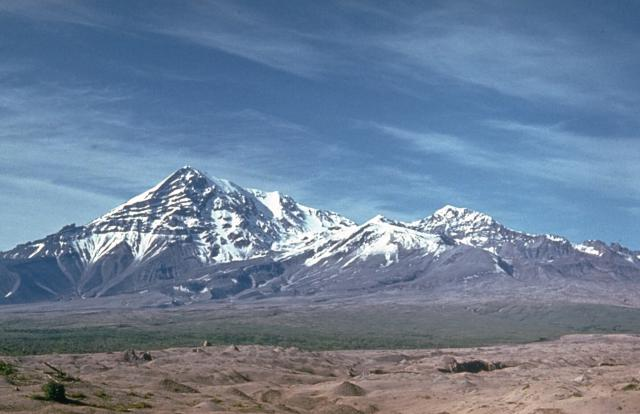 The high, isolated massif of Shiveluch is one of Kamchatka's largest volcanoes.